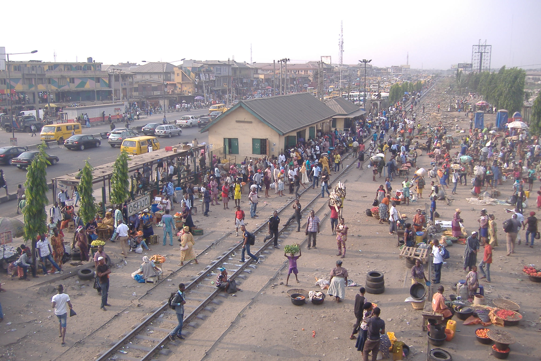 Train Stations in Oshodi, Lagos, Nigeria Photo Taken by Mr. Olusola D, Ayibiowu Date 13th January 2017